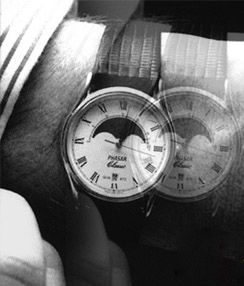 Photo demonstrating how a patient experiences diplopia